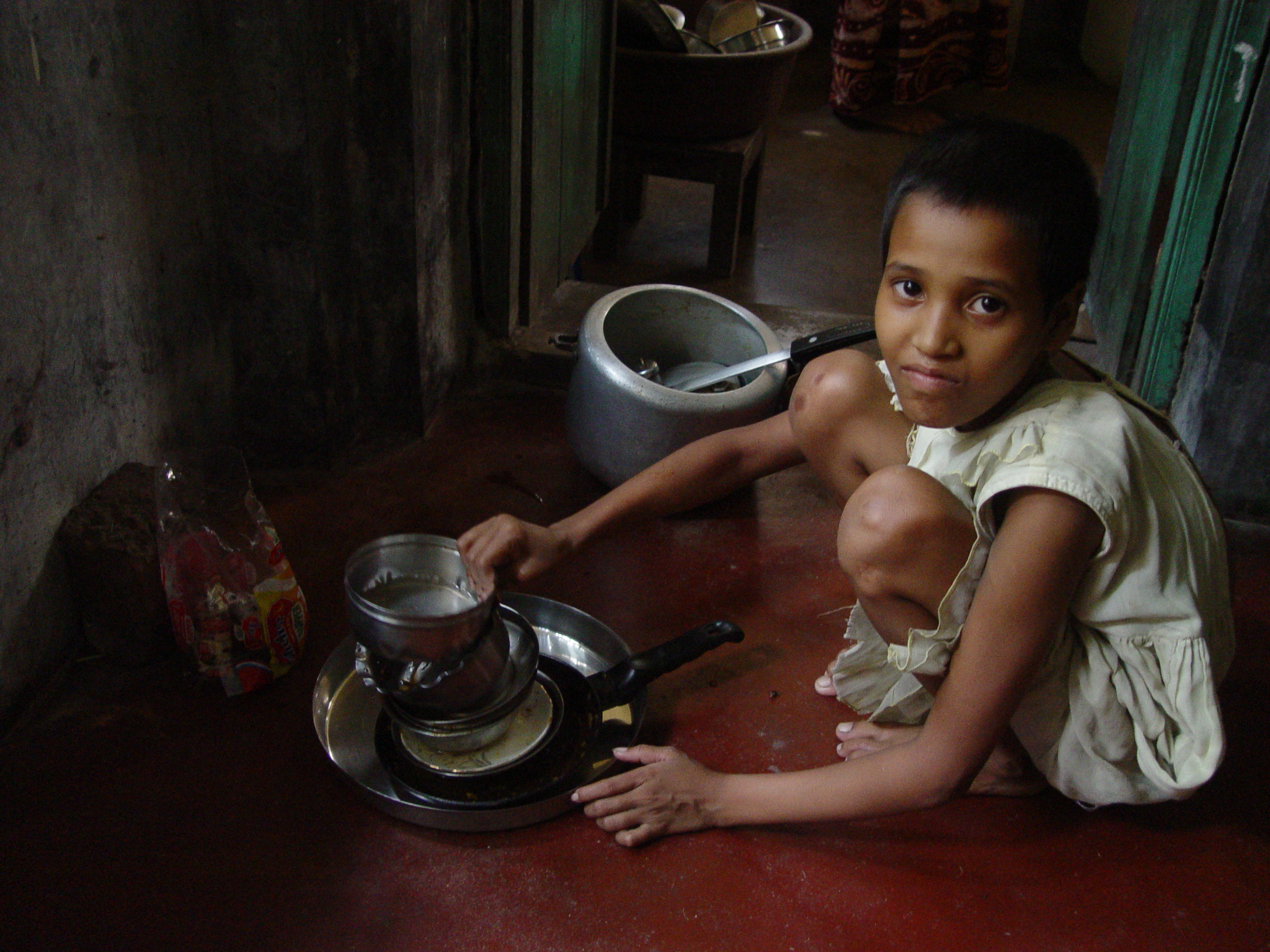 Child maid servant are widely work in India, engaged by their parents to earn extra money, although it is banned by the government.